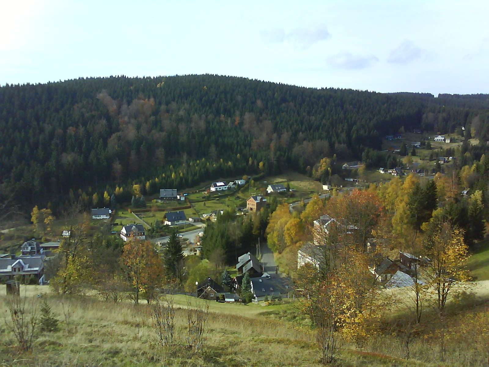 View of the Sachsenberg-Georgenthal area of Klingenthal from the Aschberg